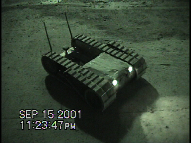 PackBot image off of government site. This robot was sent out at WTC during 9/11 search and rescue. article about it at